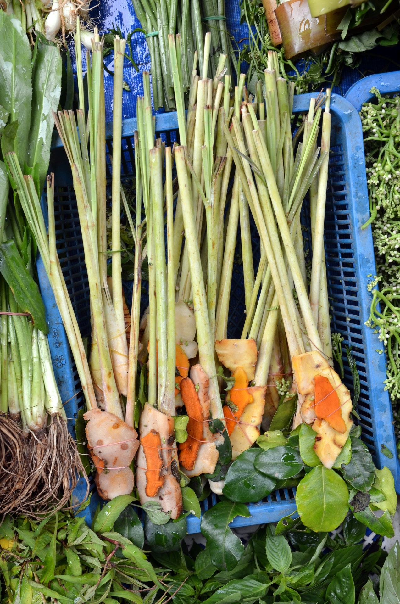 Ingredients for tom yam kai (chicken tom yam) are sold at a market in Chiang Mai. Note the orange slice of khamin (tumeric) which denotes that this combination of herbs and spices is for chicken tom yam and not for prawn tom yam. The other ingredients inside these bundles are: kha (galangal root), takhrai (lemongrass) and bai makrut (kaffir lime leaves).